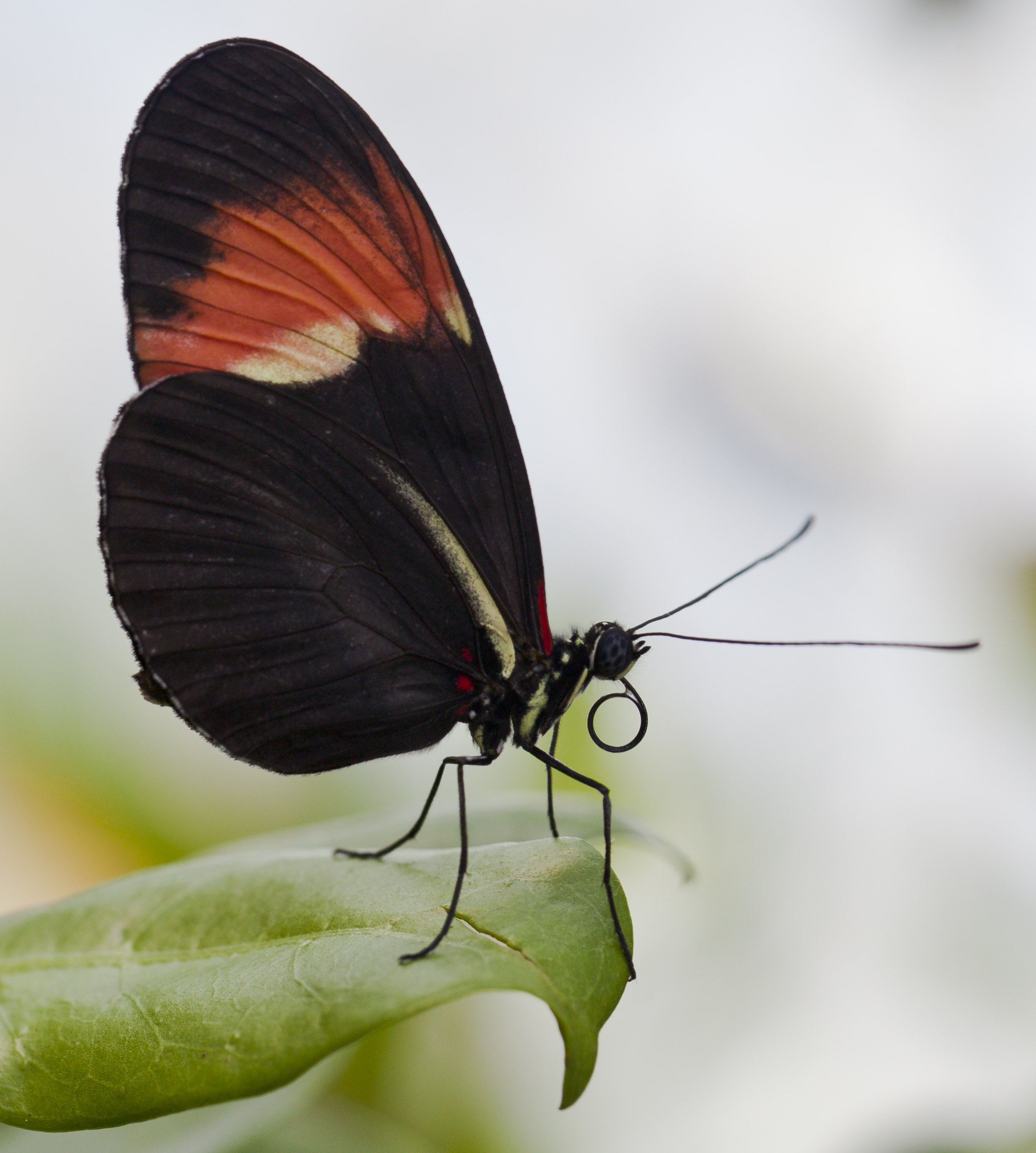 Heliconius melpomene, Munich Botanic Garden, Germany